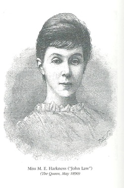 Margaret Harkness or Margaret Elise Harkness aka John Law (28 February, 1854 – 10 December, 1923) was an United Kingdom English radical journalist and writer.